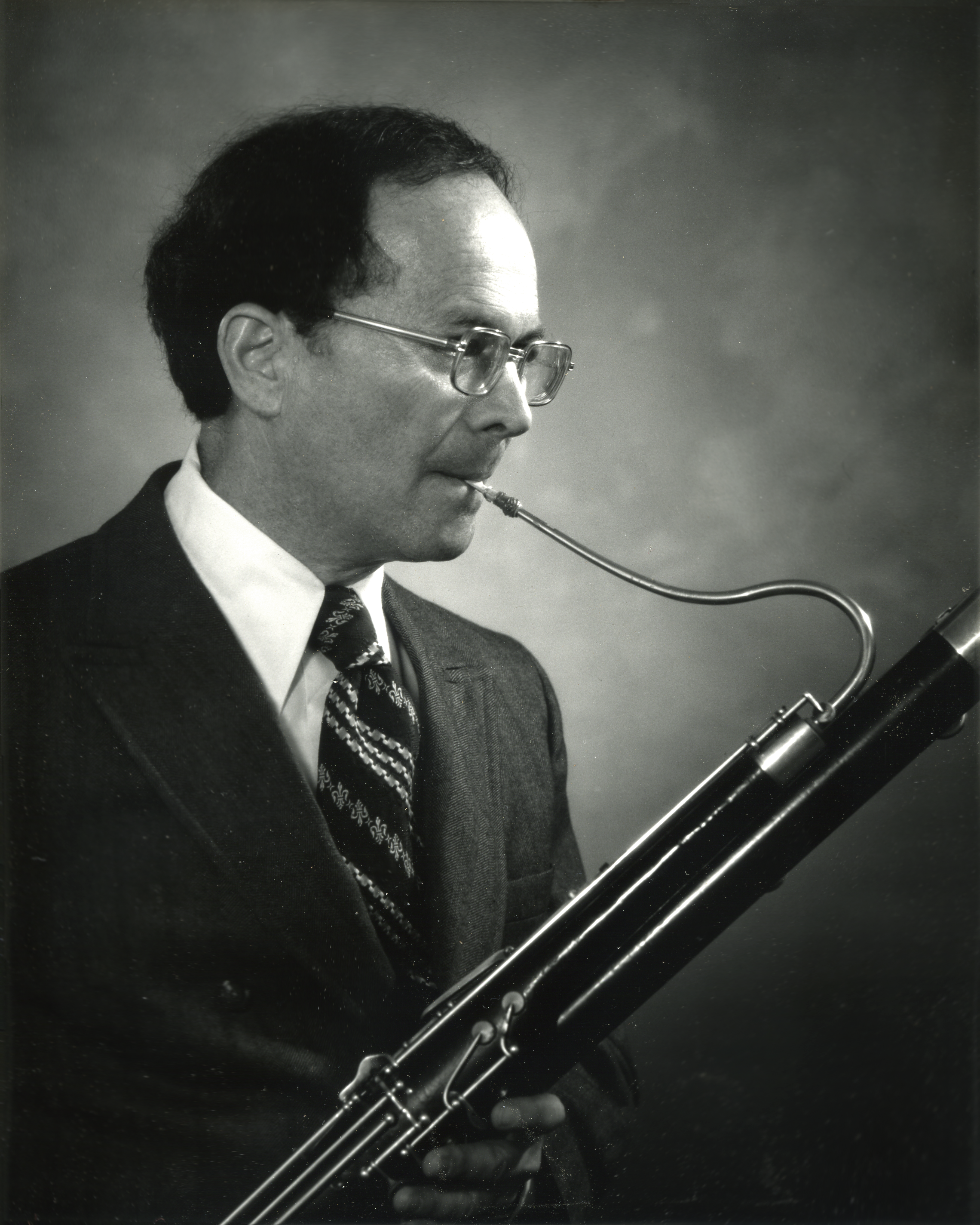 This photo was used by Bernard Garfield for professional promotional purposes. It portrays Mr. Garfield in the mid 1960's with his signature black 1930 Heckel bassoon, 7000 series. The instrument is now used by one of Garfield's former students, the principal bassoonist of the Cleveland Orchestra.